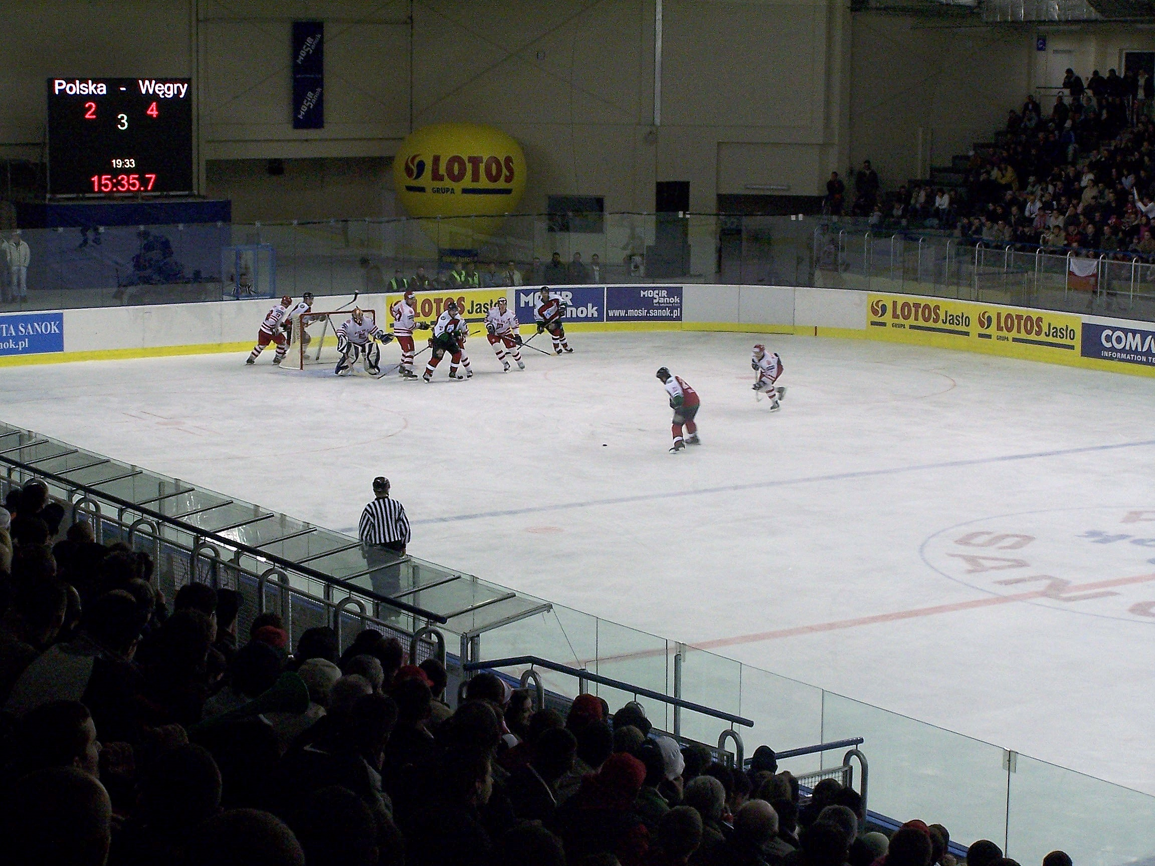 Hungarian national ice hockey team during friendly game Poland vs. Hungary, April 4-th 2006, Arena Sanok.